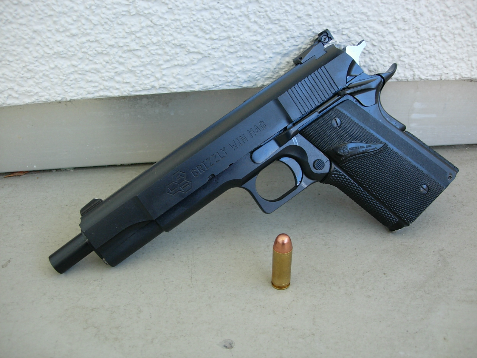 Pistol L.A.R. Grizzly, .45WinMag, 6.5" barrel